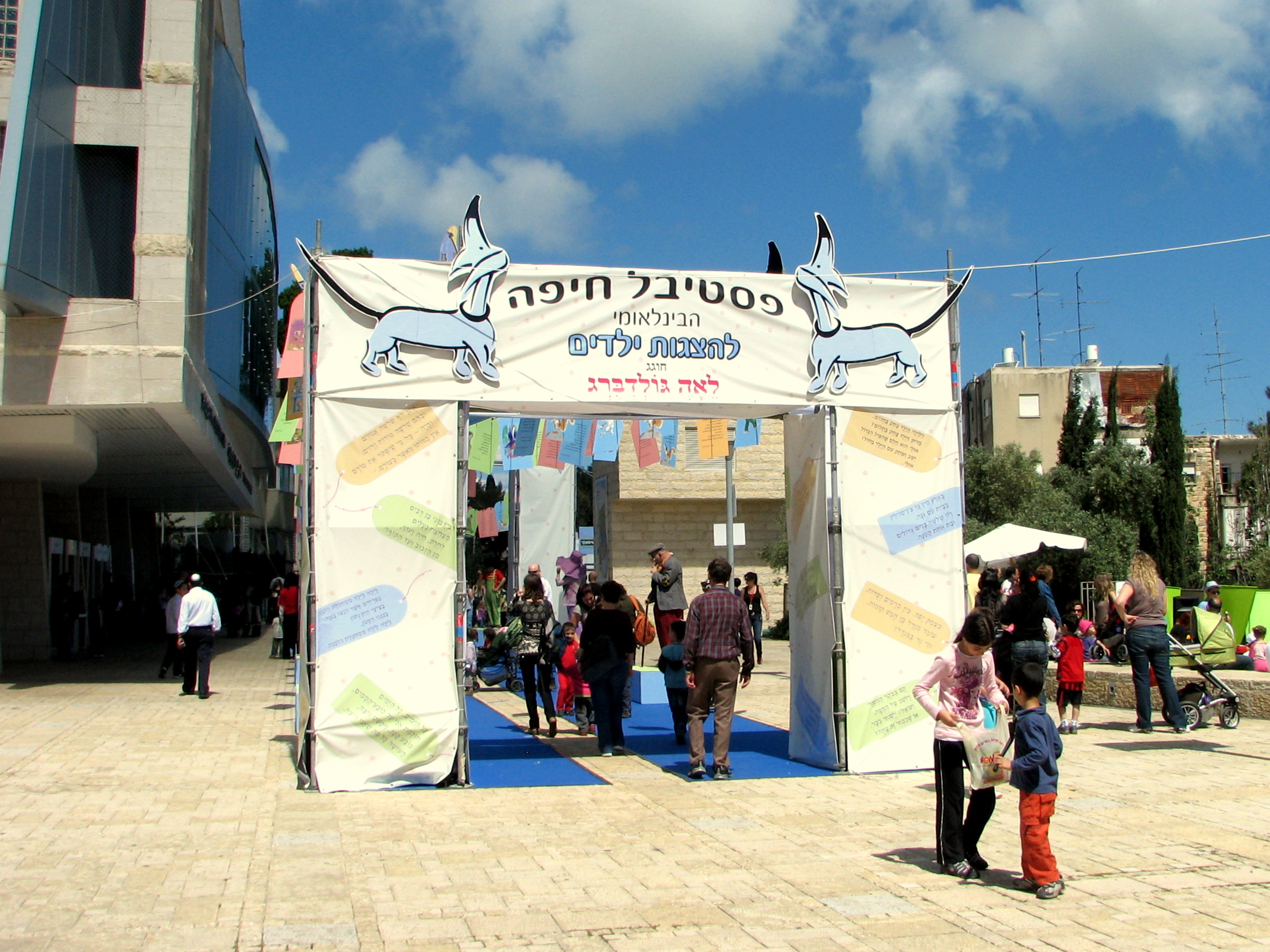 The 21 Haifa International Children's Theater Festival. The festival has become a tradition that occures annually, during the Passover Holiday.